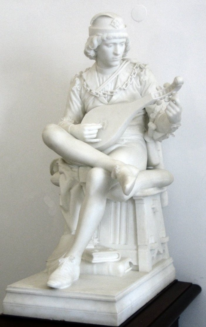 Bernardim Ribeiro, marble sculpture by António Alberto Nunes, 1891, Museu de Évora, Portugal